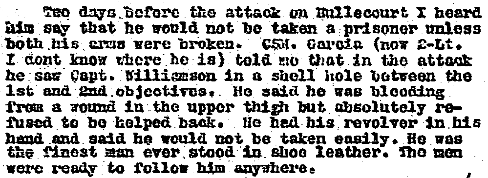 Red Cross Wounded and Missing Records: Alfred Williamson. This is one of the reports gathered by the Red Cross in their file on Captain Alfred Williamson, First AIF